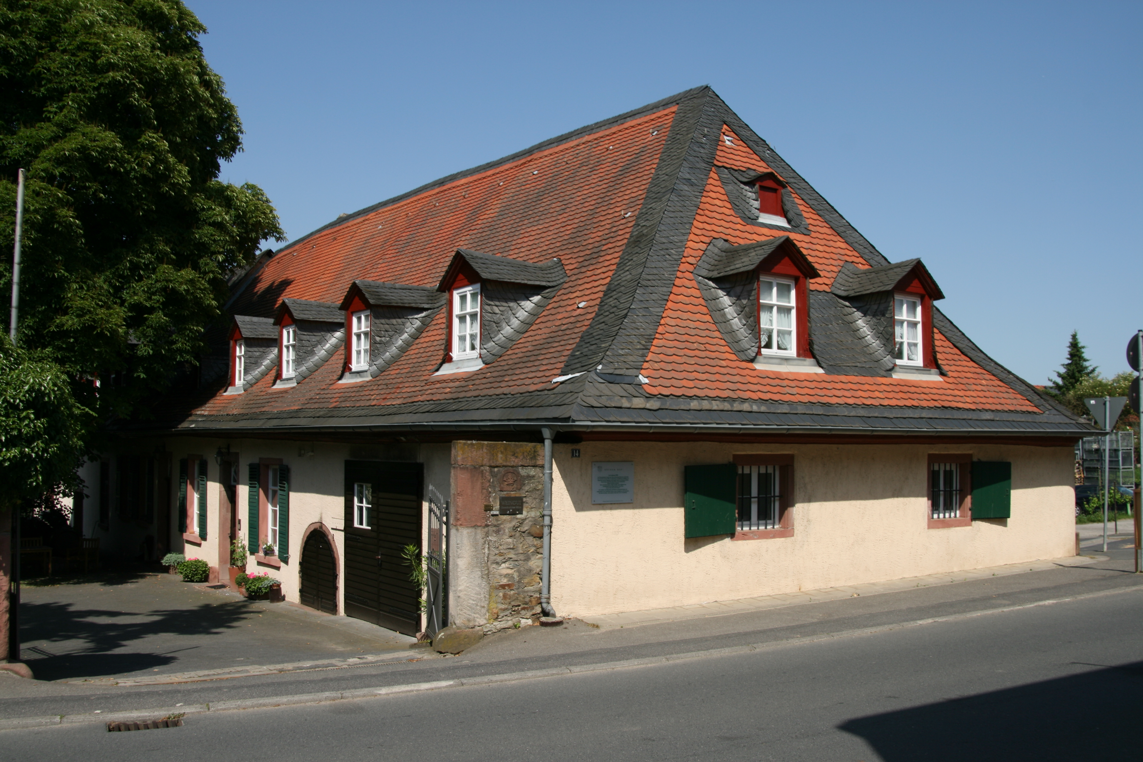 Köther Hof, Kiedrich, Hesse, Germany